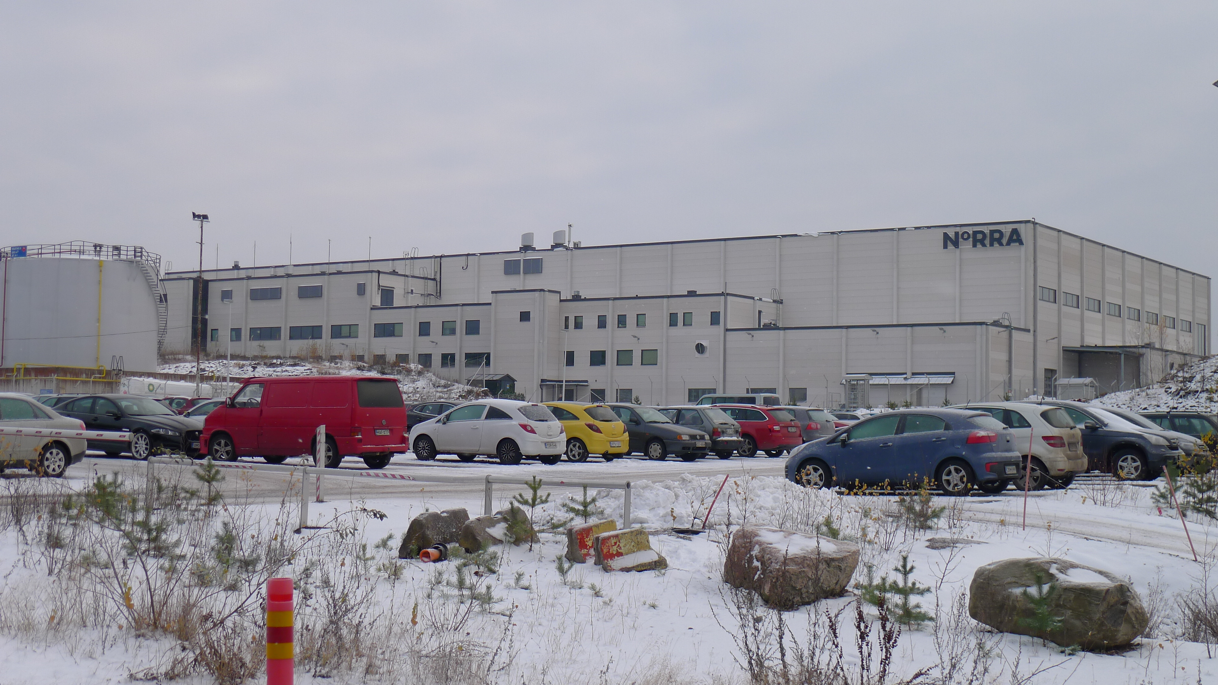 Headquarter of Nordic Regional Airlines (Norra)